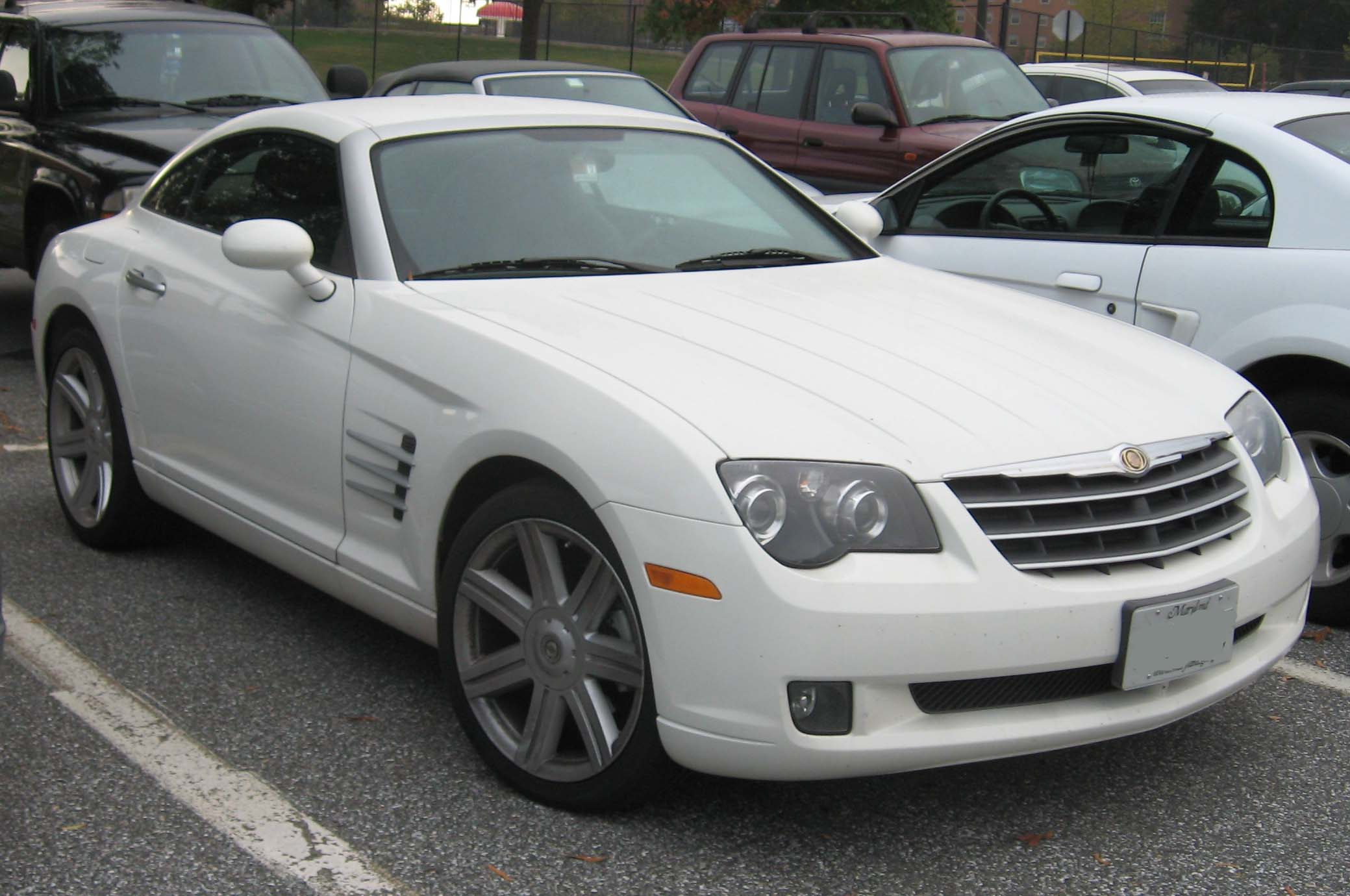 Chrysler Crossfire photographed in College Park, Maryland, USA.